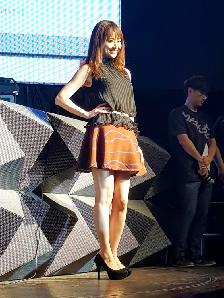 Japanese porn star Akiho Yoshizawa having a fan meeting in Seoul, South Korea